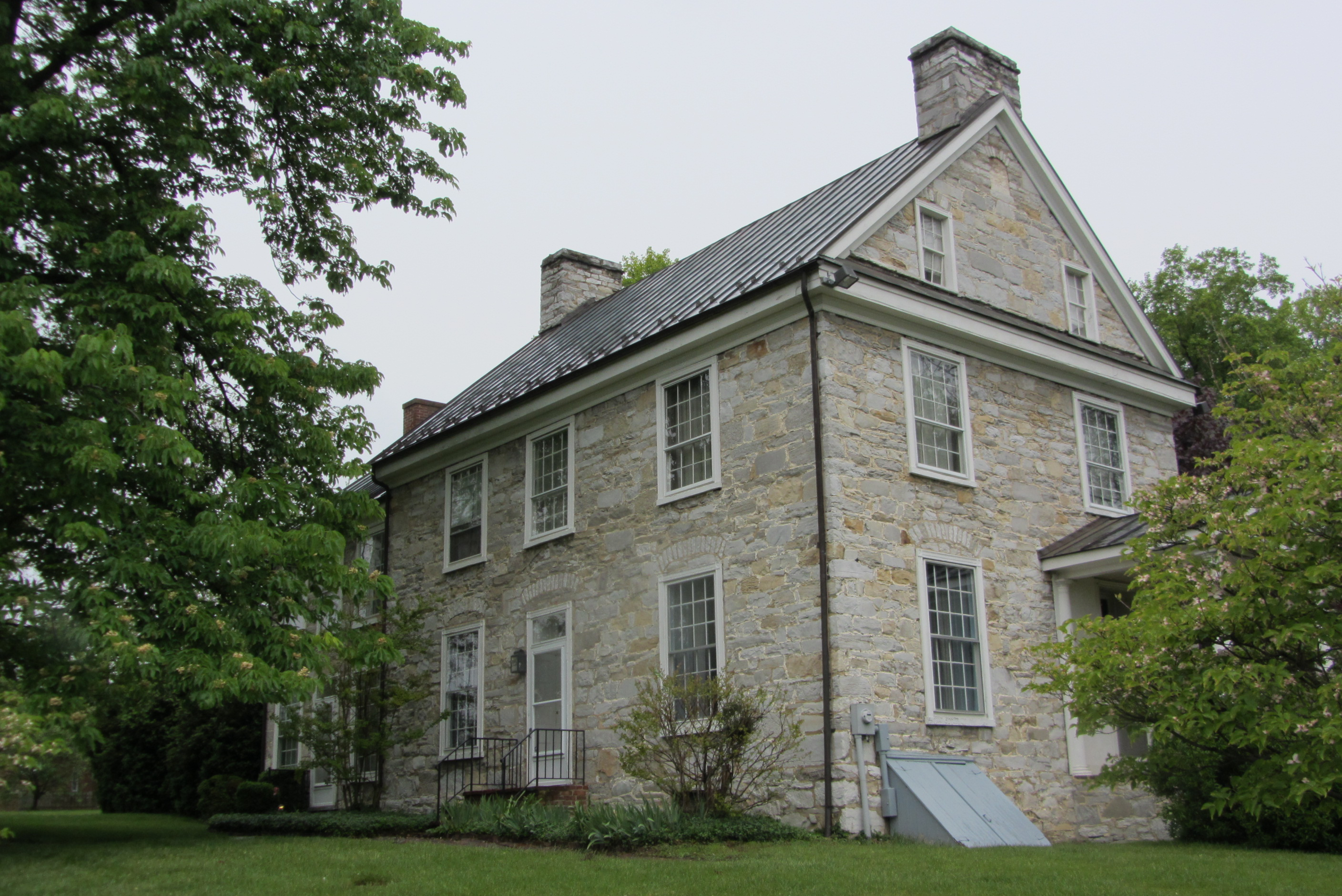 Main house, Abram's Delight, Winchester, Virginia, USA